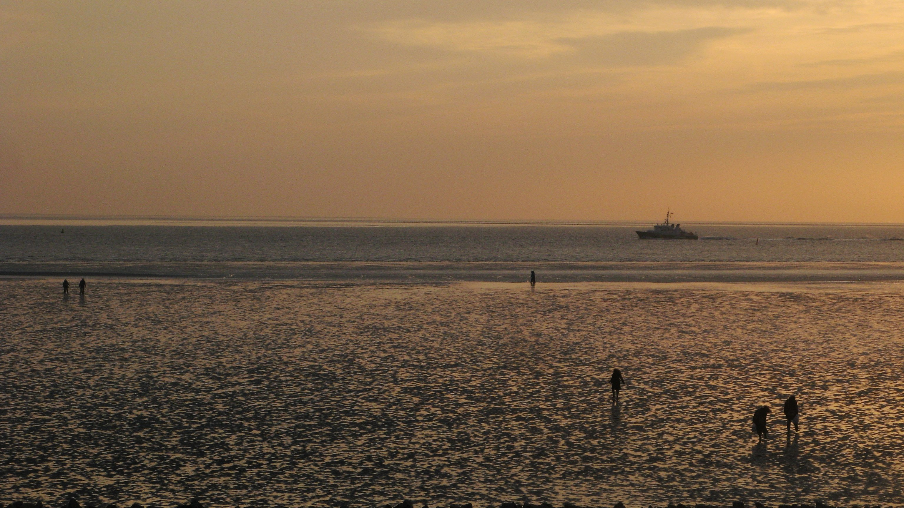 Wadden Sea in Büsum while the Coast Guard comes in